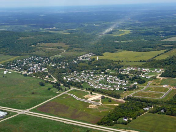 Aerial photo of Blue Mounds, WI taken on Sept 9, 2007 by Brian Baillod. Should be in the Blue Mounds WI article